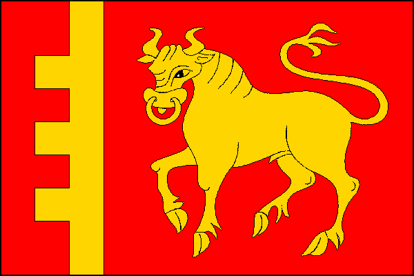 Municipal flag of Býkovice village, Blansko District, Czech Republic.